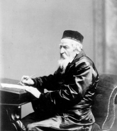 Nathan Fridland